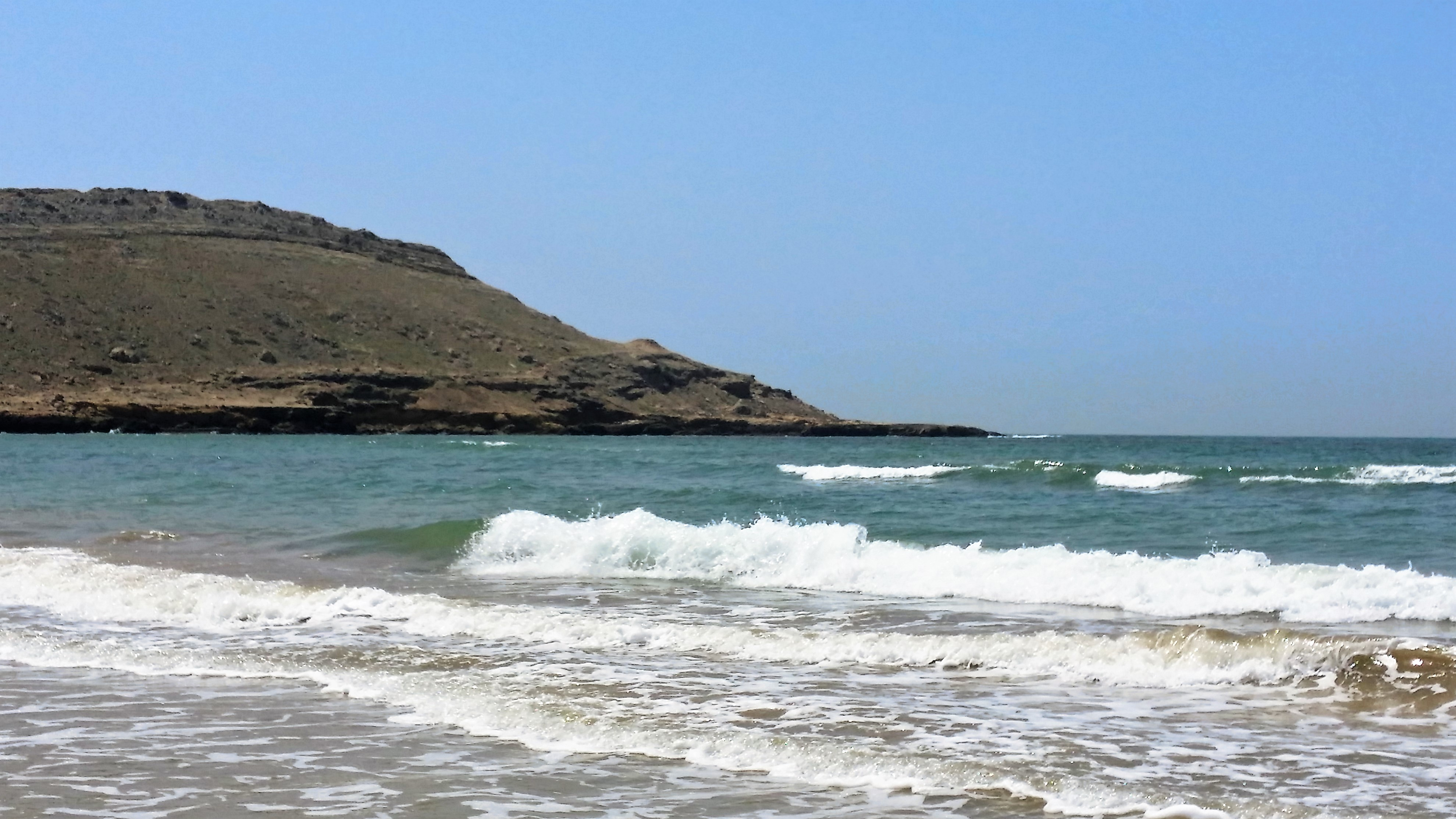 Mubarak Goth or Mubarak Village (Urdu: مبارک گوٹھ) is a fishing village in Kiamari Town in Karachi, Sindh, Pakistan. It is located along the shore of Arabian Sea in District South of Karachi. Mubarak Goth is close Hawksbay which is one of the few beaches in the world where green sea turtles come to lay eggs.